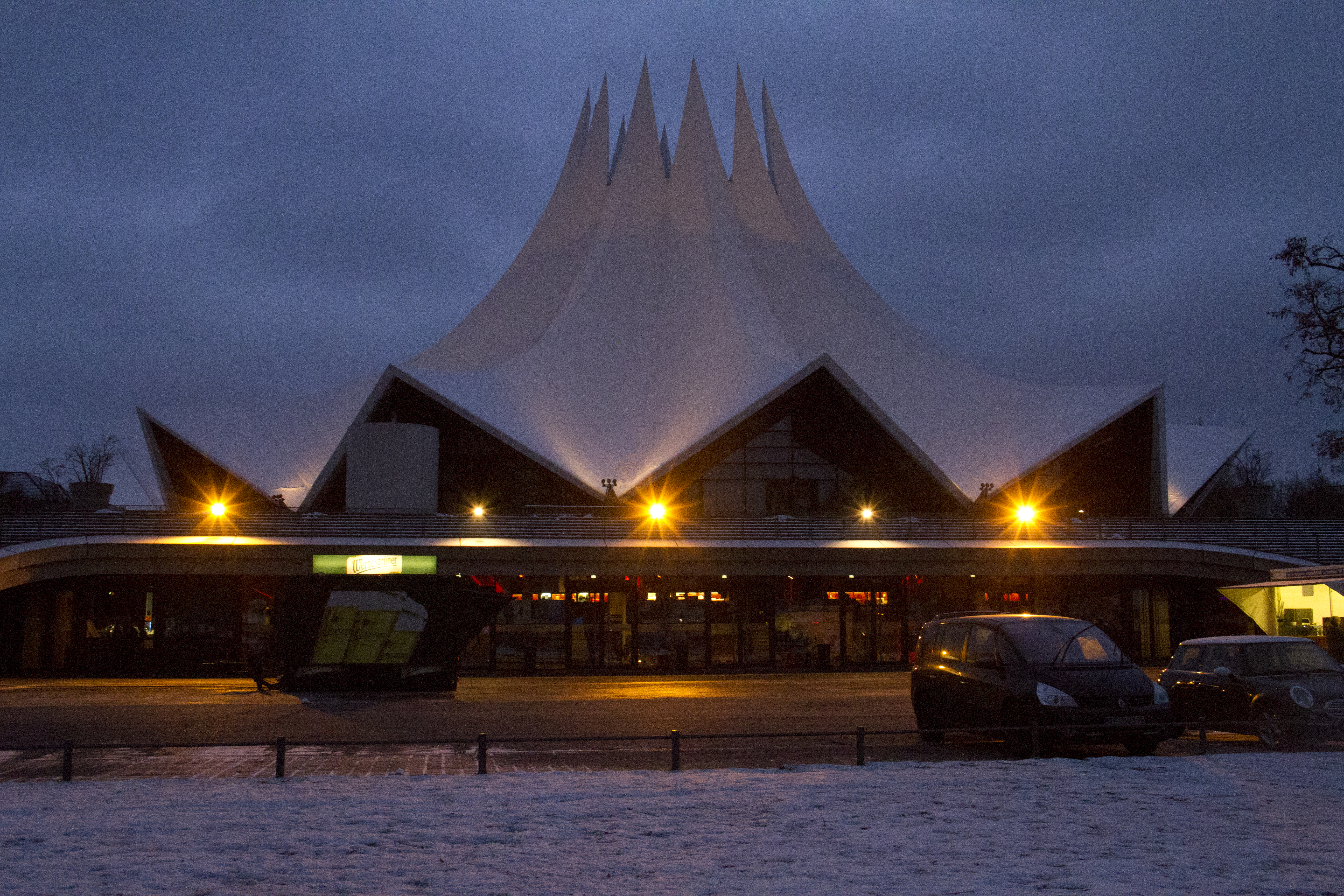 Miscellaneous photos of the Venue, Interviews, TV-Shows etc. Outdoor view